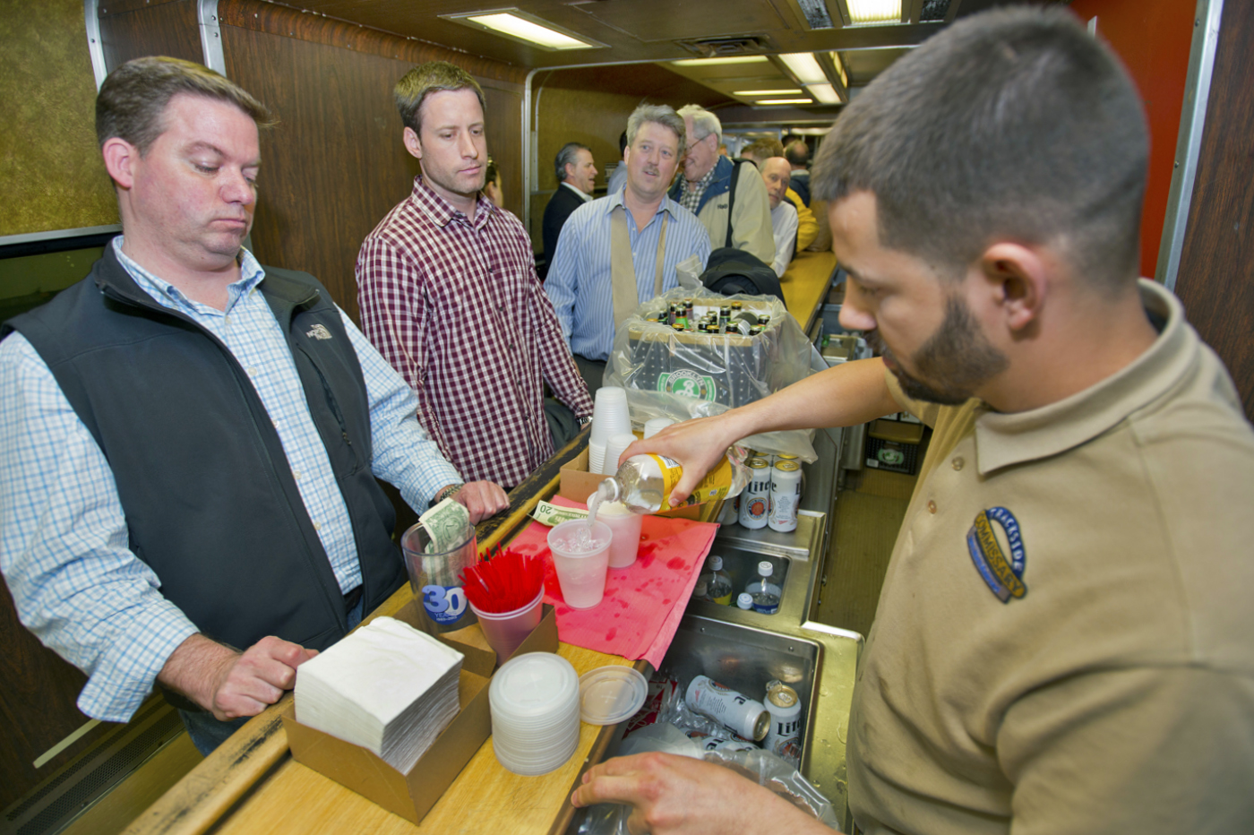 A Metro-North train that departed Grand Central Terminal at 5:26 p.m., heading to Bridgeport on Friday, May 9, 2014, contained the penultimate "bar car" on the commuter railroad. Photo: Metropolitan Transportation Authority / Patrick Cashin